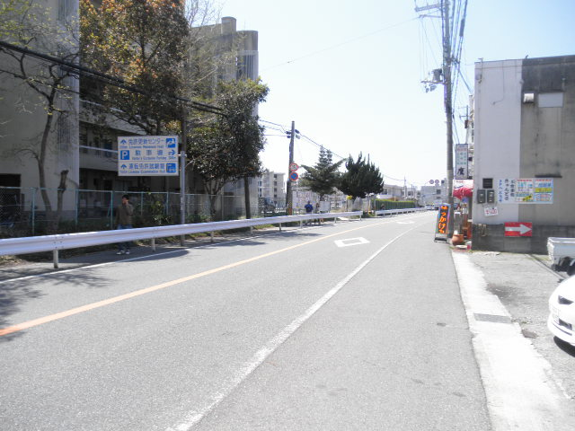 Niyama Akashi Hyogopref hyogoprefectural road 366 Arise Ohkura line